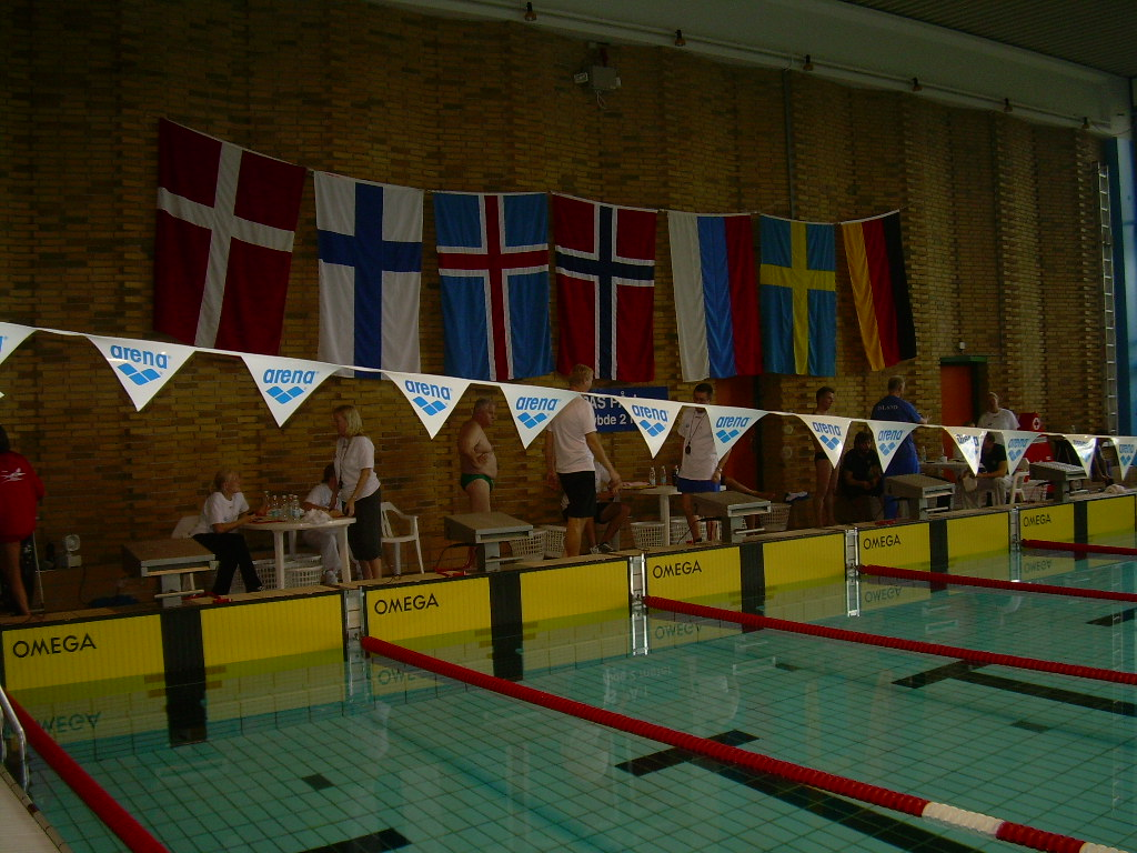 From competitive swimming pool, Nordic Open Masters 2006 in Odense, Denmark